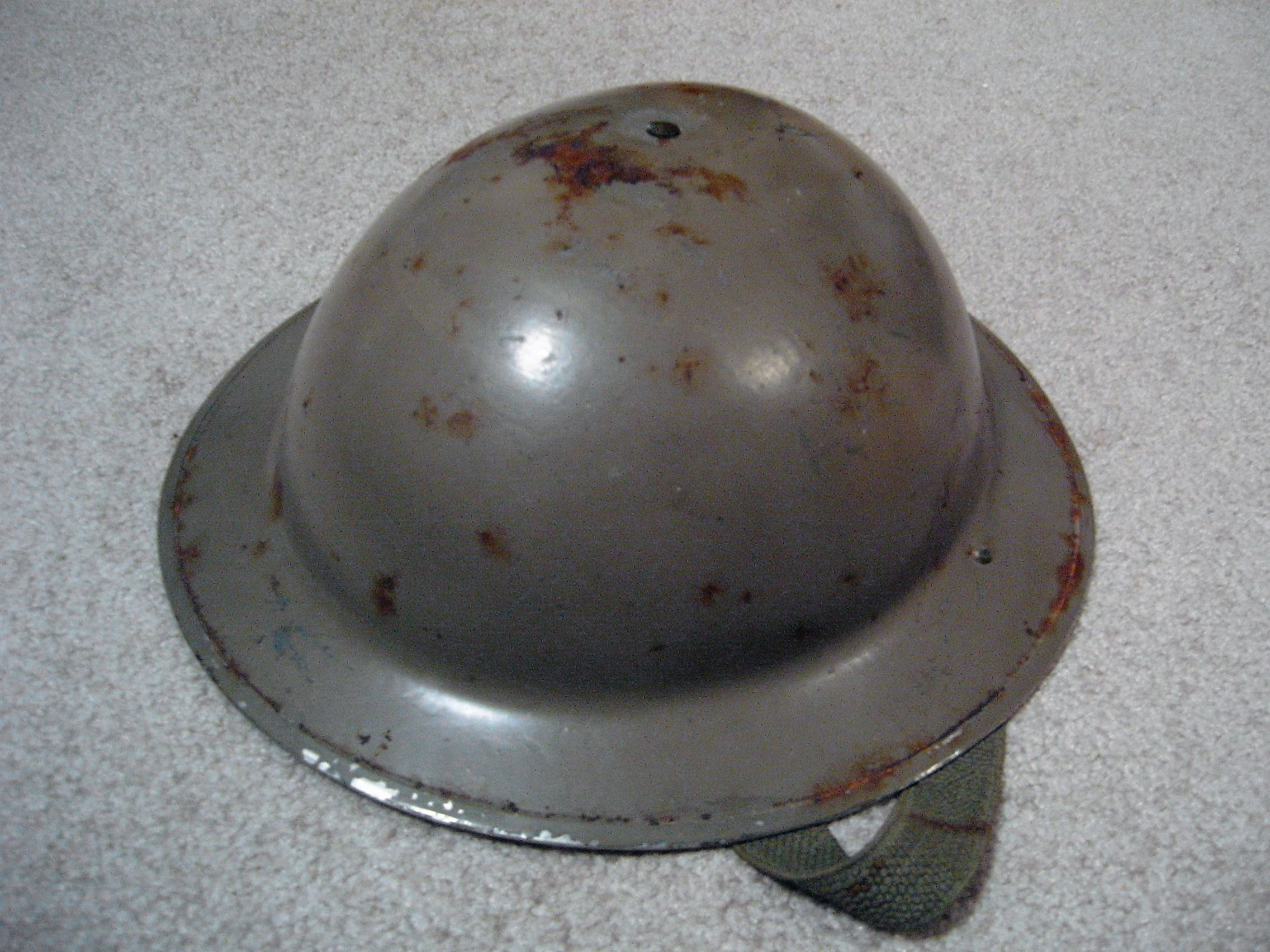 World War II British Mark II Steel Helmet (With some rust on it...)